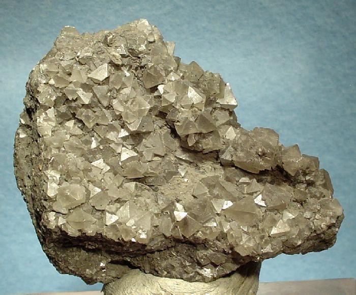 Sénarmontite Locality: Djebel Haminate Mine, Ain Beida, Constantine Province, Algeria (Locality at ) Size: 6.0 x 4.7 x 3.0 cm. Senarmontite is an uncommon antimony oxide and this excellent, rich specimen is from the Type Locality in Algeria - the Djebel Haminate Mine. Sharp, waxy lustre, gray senarmontite octahedrons to 6 mm cover three sides of the 3-dimensional massive senarmontite matrix. This is a rare species, and these old specimens were found by the old French exploration service BRGM, prior to the 1950s and even as far back as the 1850s. Odds are that this was one of the specimens found on one of those French expeditions. You seldom see any examples of this species in crystalline form except from this locality. This is a remarkable, large, matrix specimen.